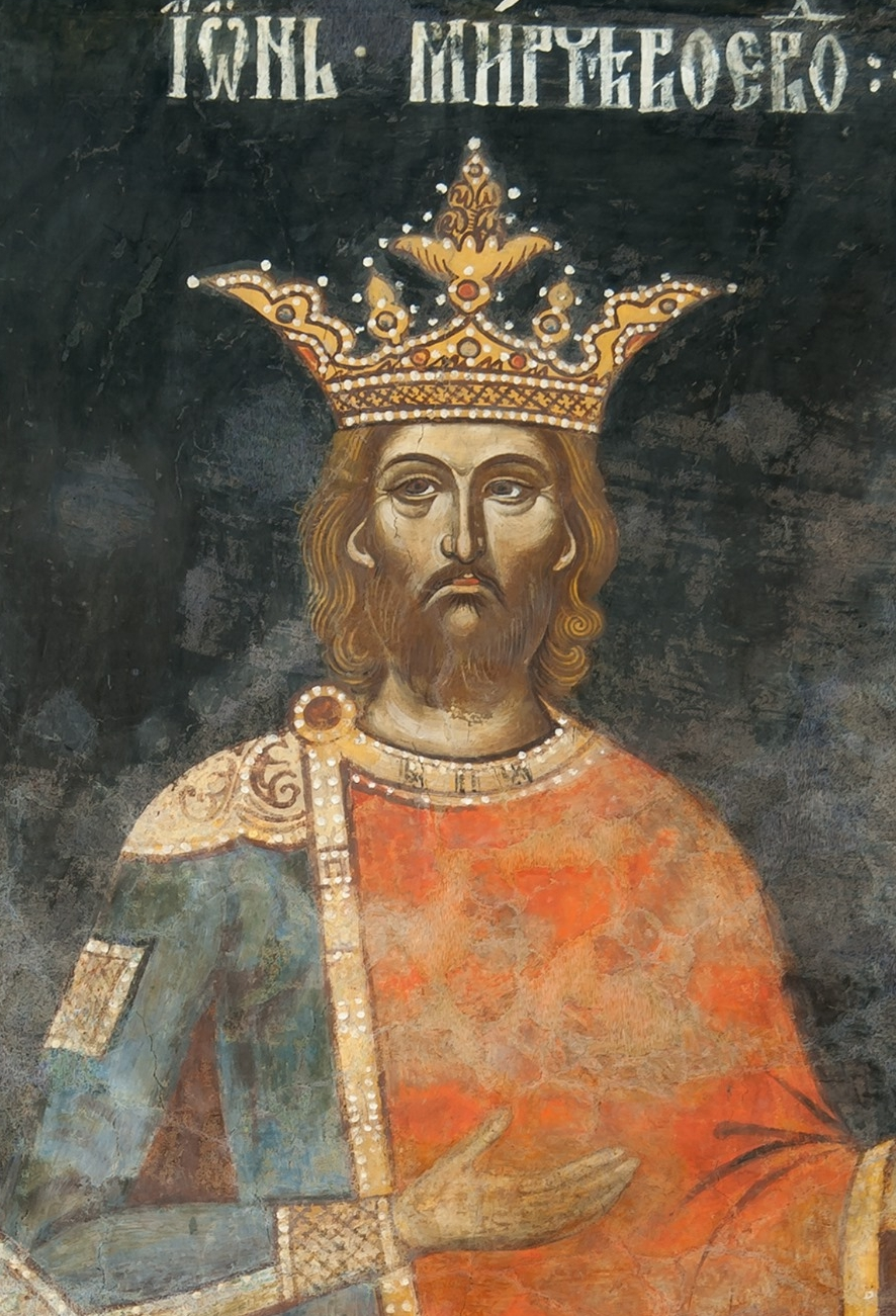 Mircea I of Wallachia, painting at Argeş Episcopy